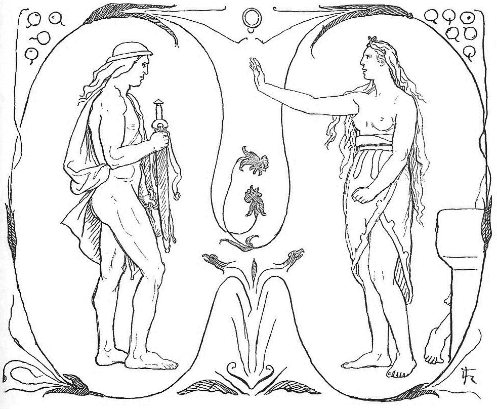 The first of three Skírnismál images by Frølich depicting Freyr's messenger Skírnir threating Gerðr.